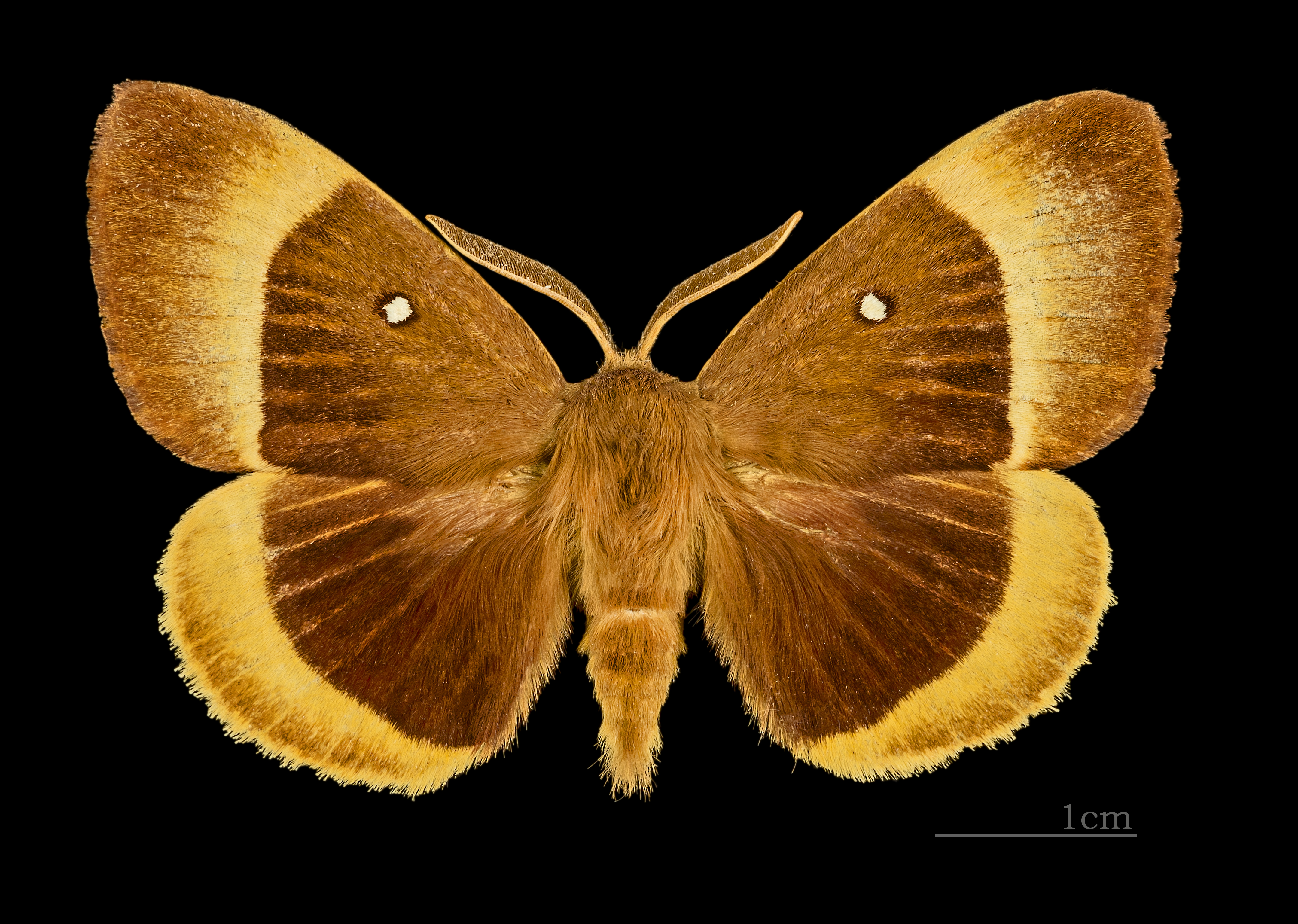 Oak Eggar - Dorsal side